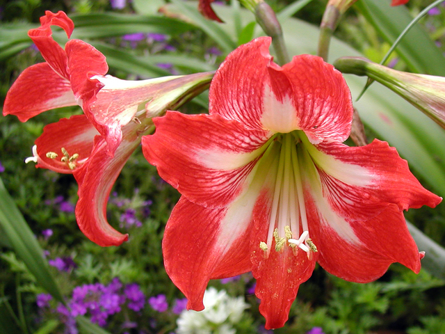 Hippeastrum 'Baby Star'